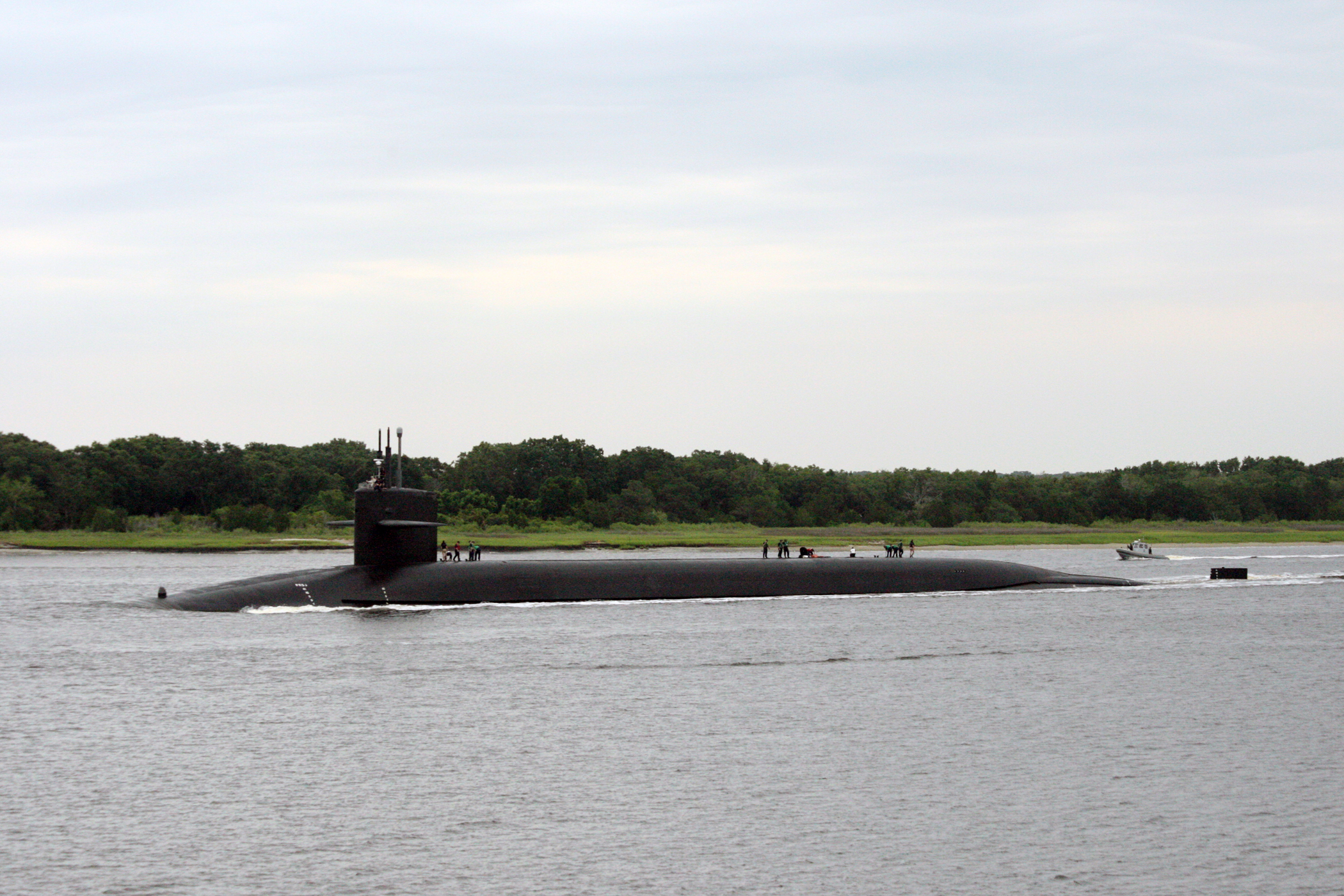 KINGS BAY, Ga. (June 30, 2009) Ohio class ballistic missile submarine USS West Virginia (SSBN 736) transits the Atlantic Intracoastal Waterway as it returns to Naval Submarine Base Kings Bay, Ga. from a patrol mission. (U.S. Navy photo Mass Communication Specialist 1st Class Kimberly Clifford/Released)